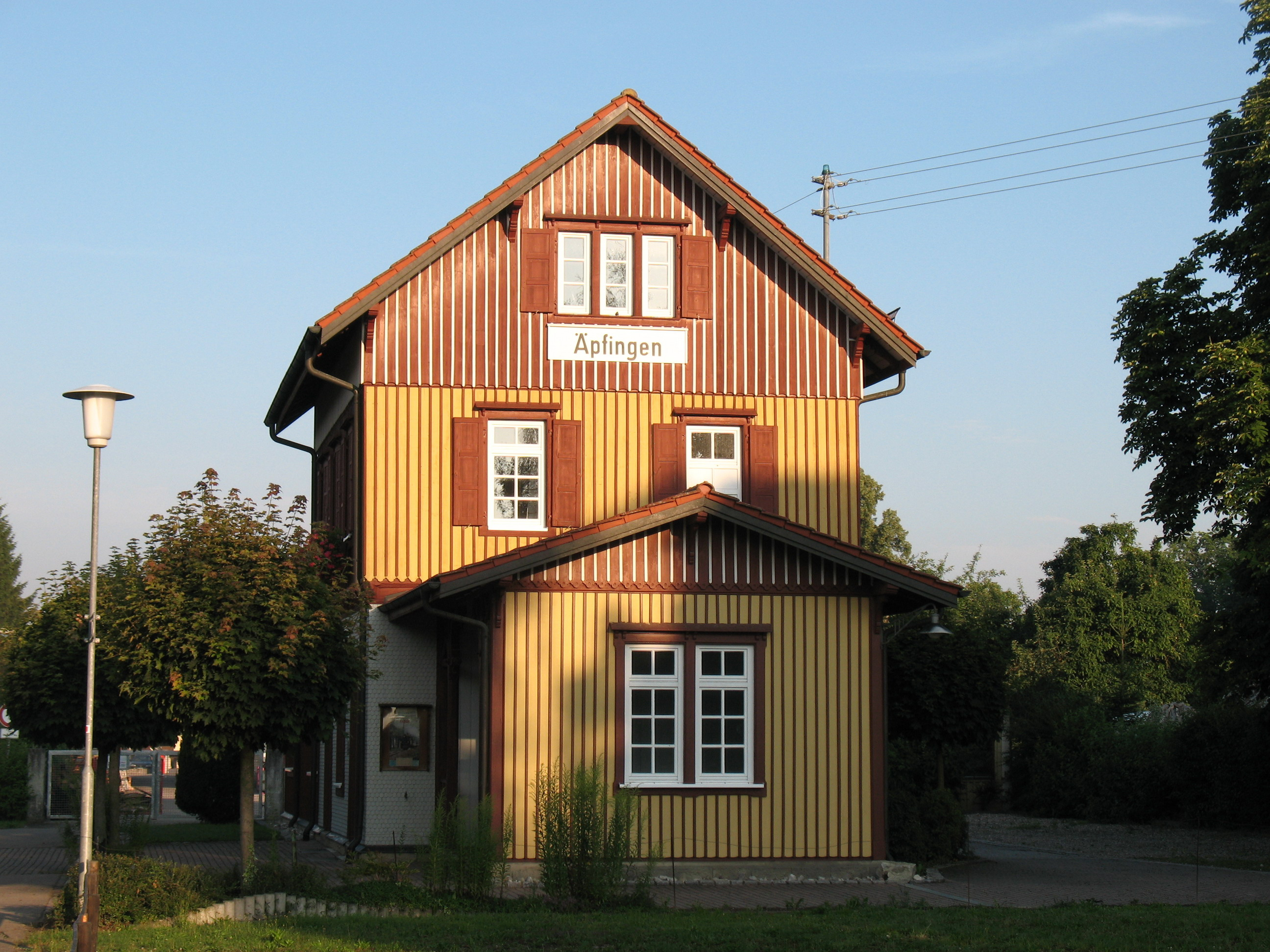 Bahnhof der Öchslebahn in Äpfingen